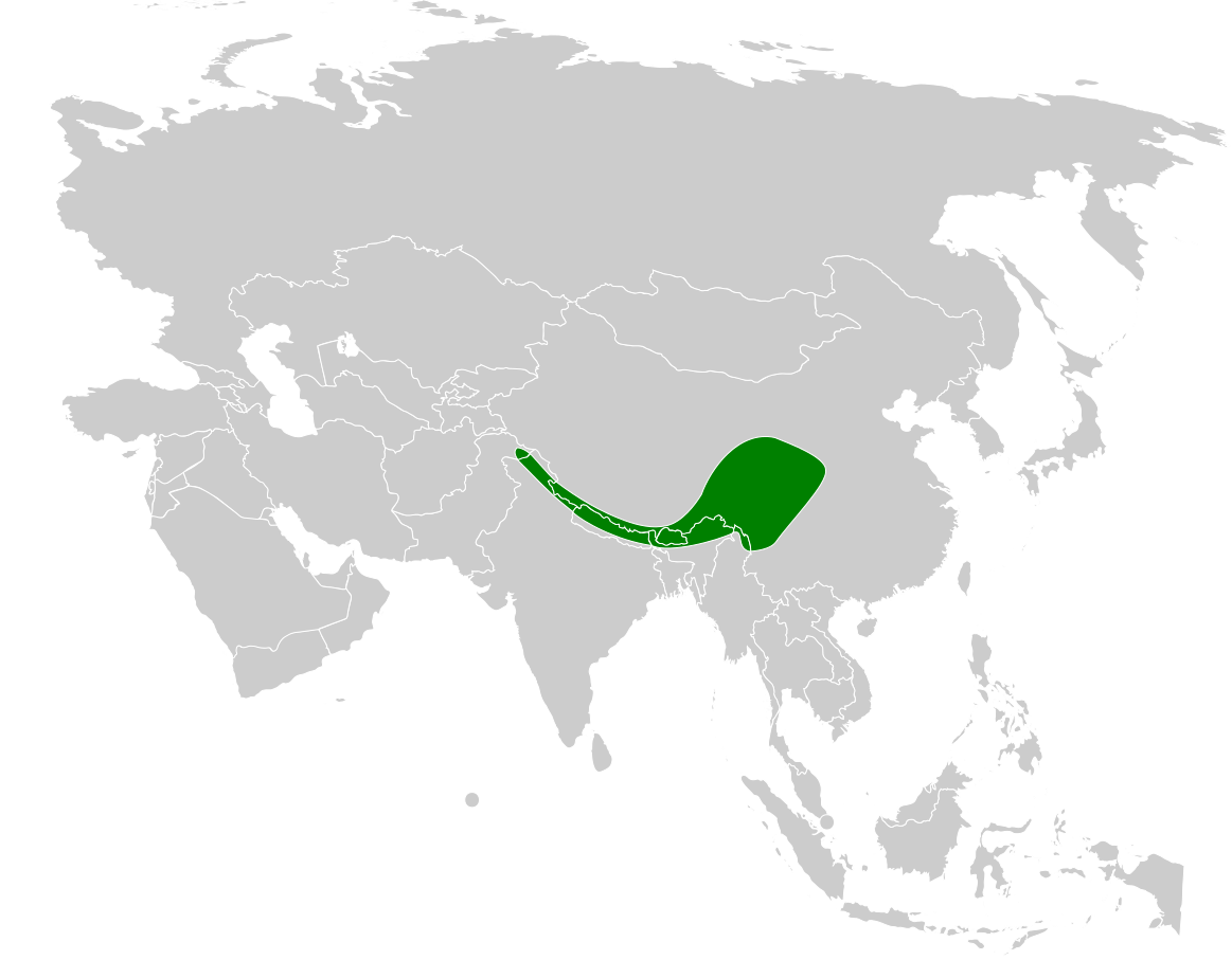 Lophophanes dichrous distribution map, based on